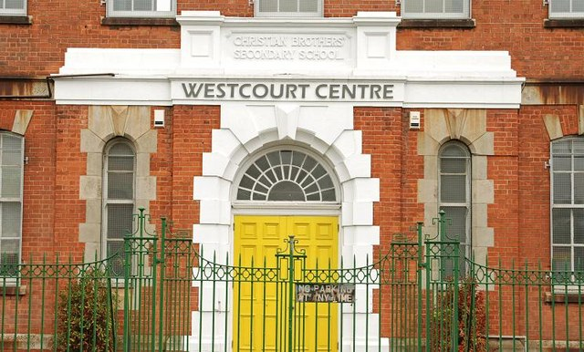 Former school doorway, Belfast The Christian Brothers school, in Barrack Street, was completed in 1926 to a design by Frank McArdle who also designed a number of other buildings in the area. Closed as a school, it is now the Westcourt Centre which provides “educational programmes aimed at young people who have rejected or been excluded from school, and to provide a valuable community resource for youth and multi-ethnic work”.